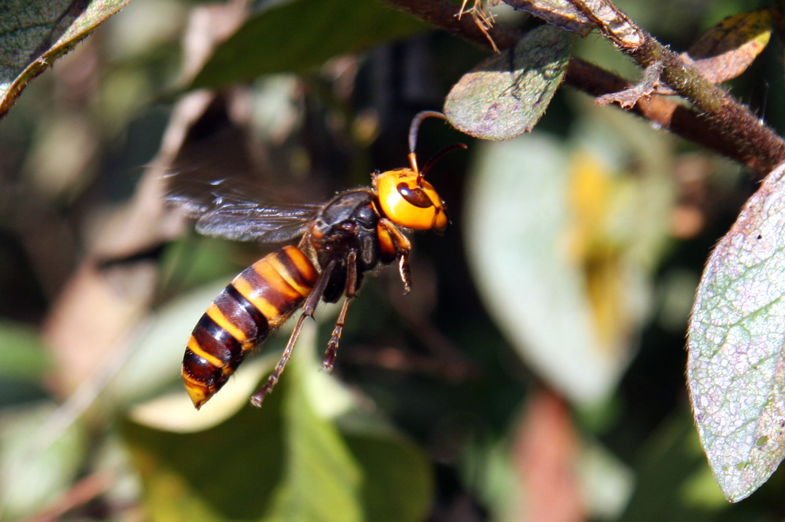 Vespa mandarinia, photo by myself. More photos